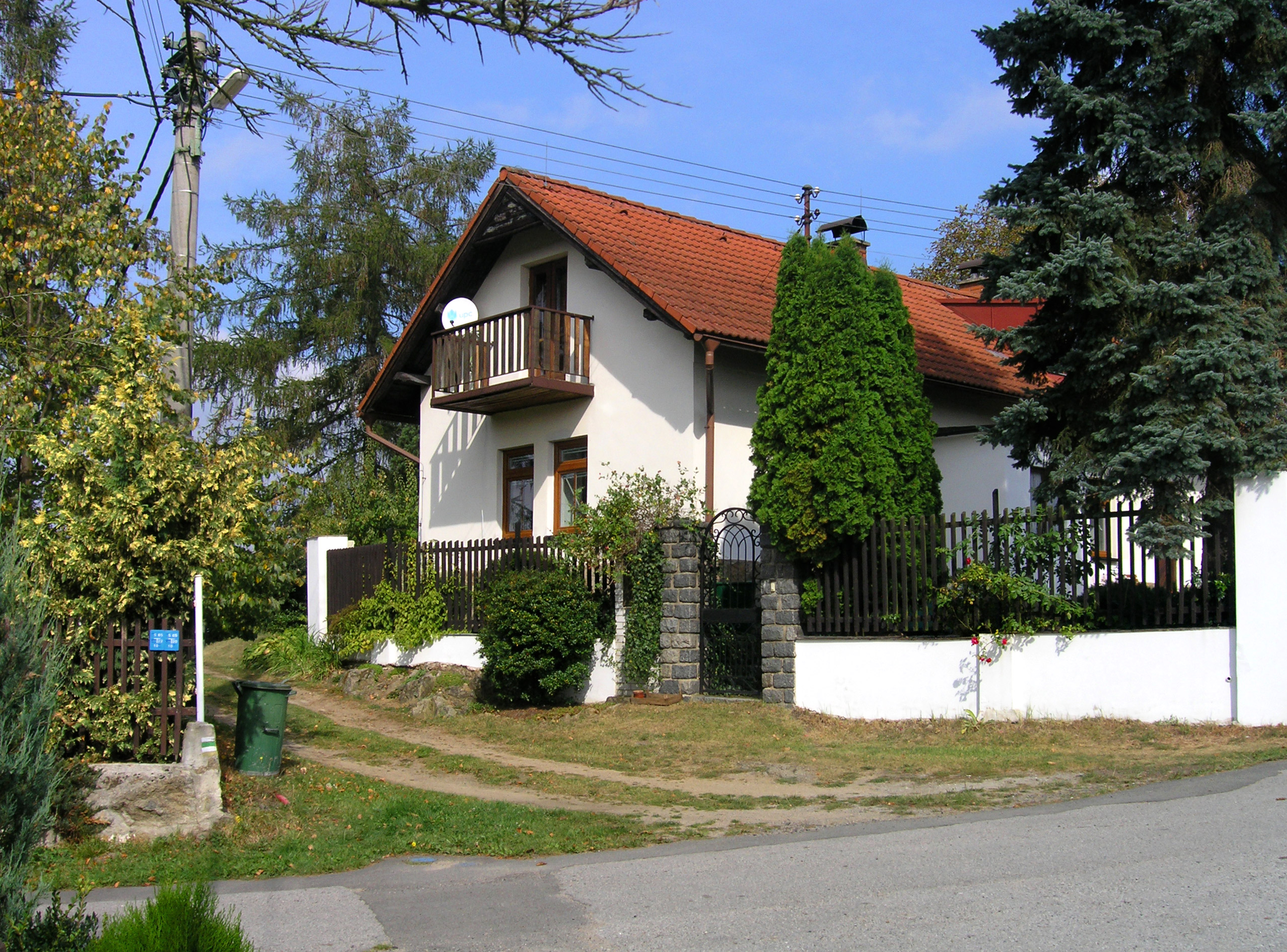 Skalsko, part of Pohoří village, Czech Republic